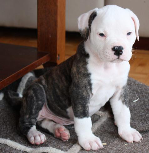 American bulldog 6 weeks old. Ontario Canada